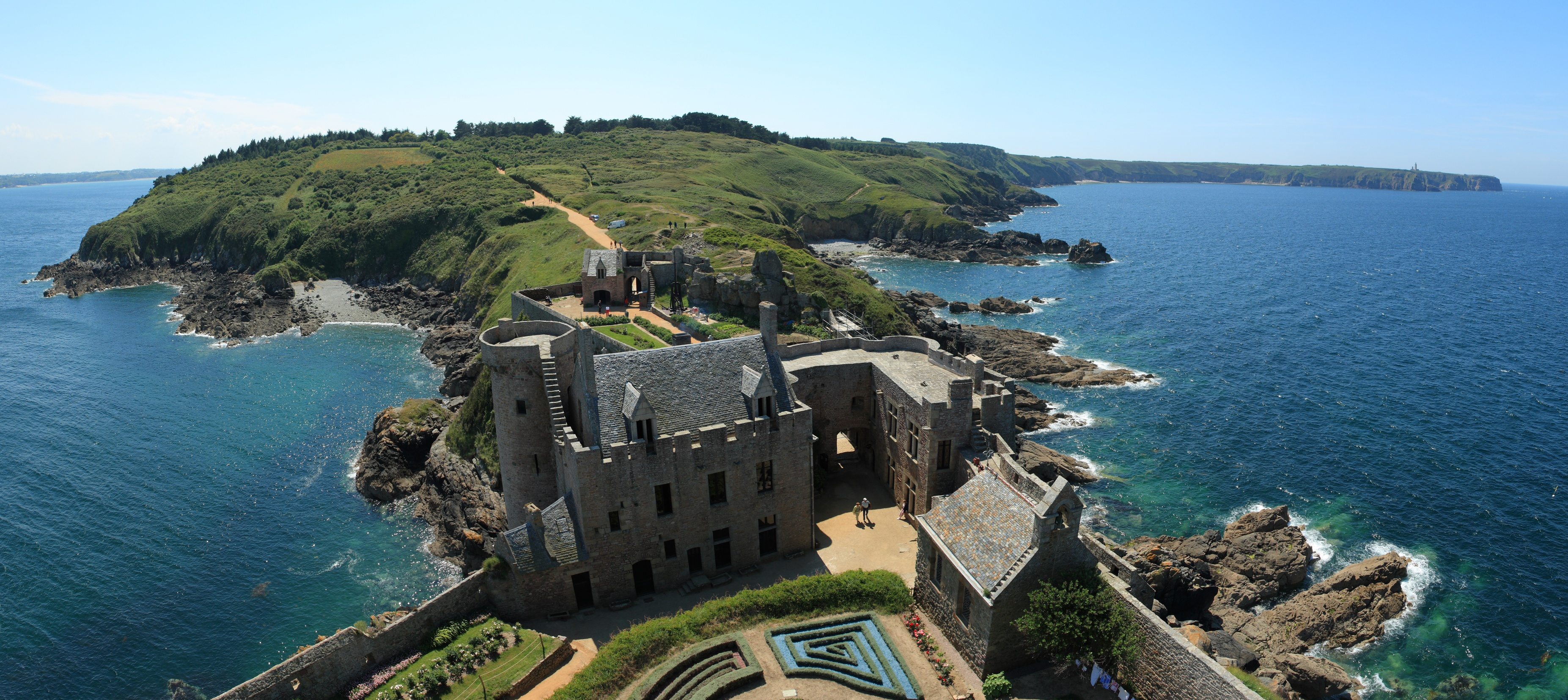 View over the Emerald green coast (Côte d’Émeraude), from the keep of the Fort la Latte castle in Plévenon (Côtes-d’Armor, Brittany, west France). Features the Cap Fréhel peninsula and its lighthouse on the extreme right.This panorama is made from 5 portrait pictures taken at 17mm on a 1.6 crop body (28mm equiv.), f/8.0, 1/200s and ISO 100. Stitching was done with Hugin and Enblend. Fish-Eye like projection was used. Resulting horizontal FOV is about 150° when taking the crop into account.